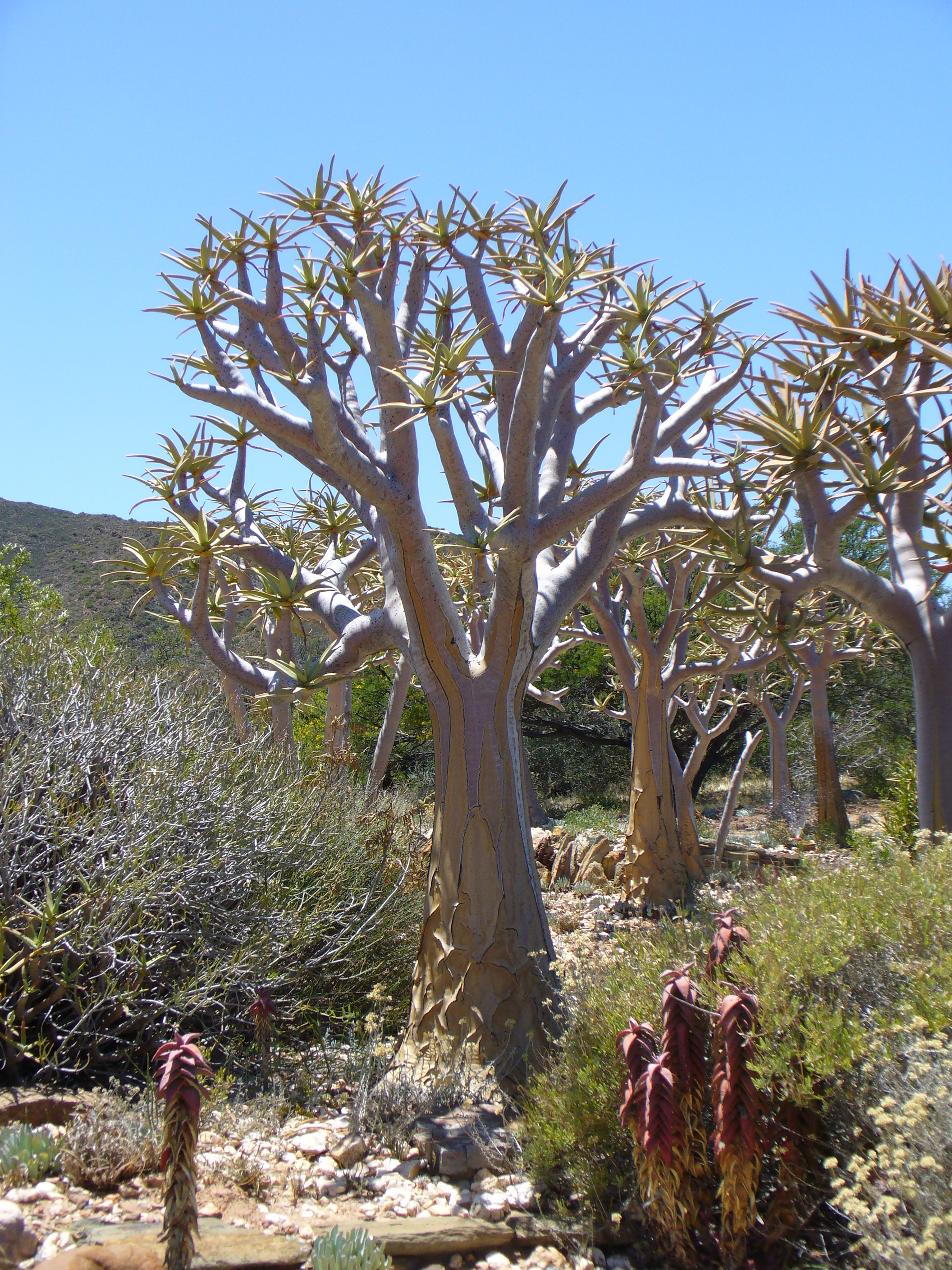 Giant quiver tree